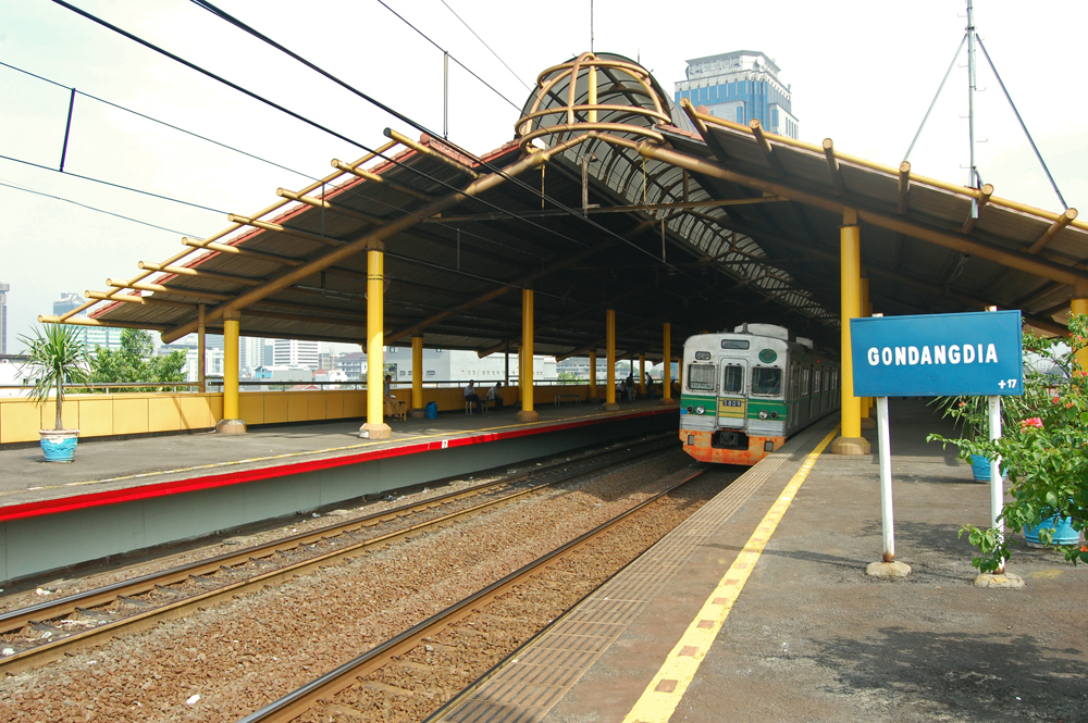 Gondangdia train station in Jakarta, Indonesia